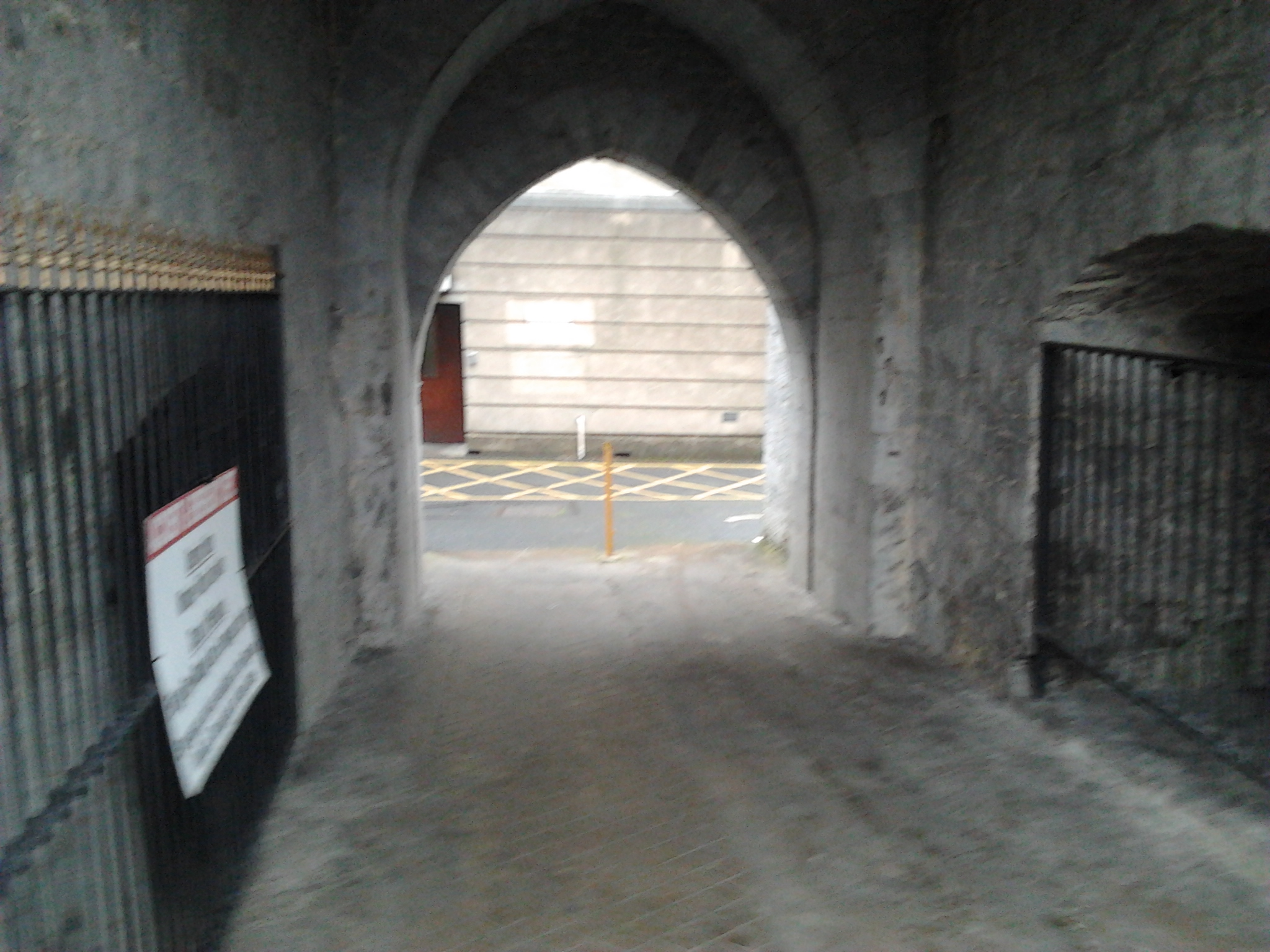 Arch at St Johns Hospital Limerick